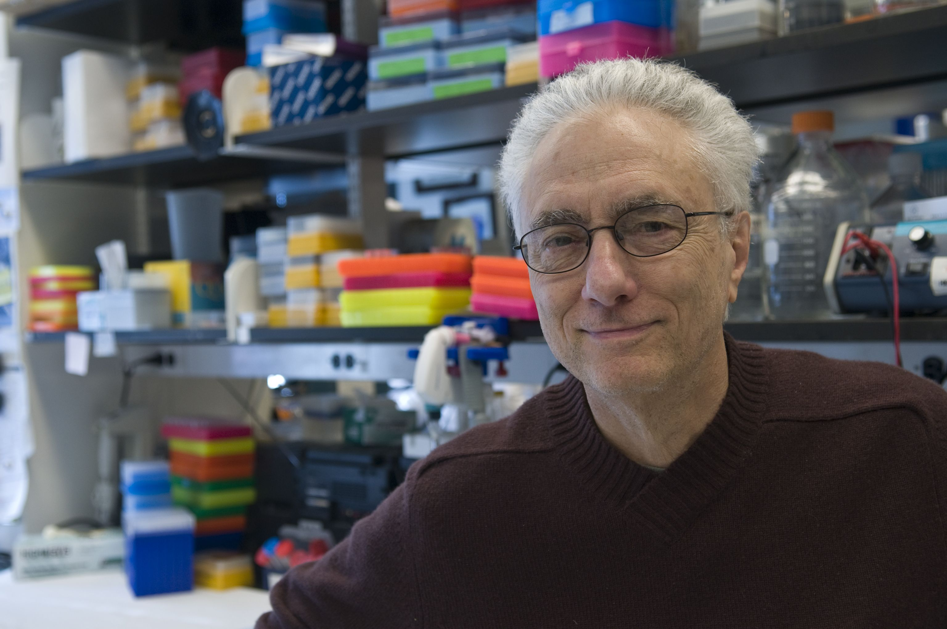 Picture of Rudolph Leibel, MD